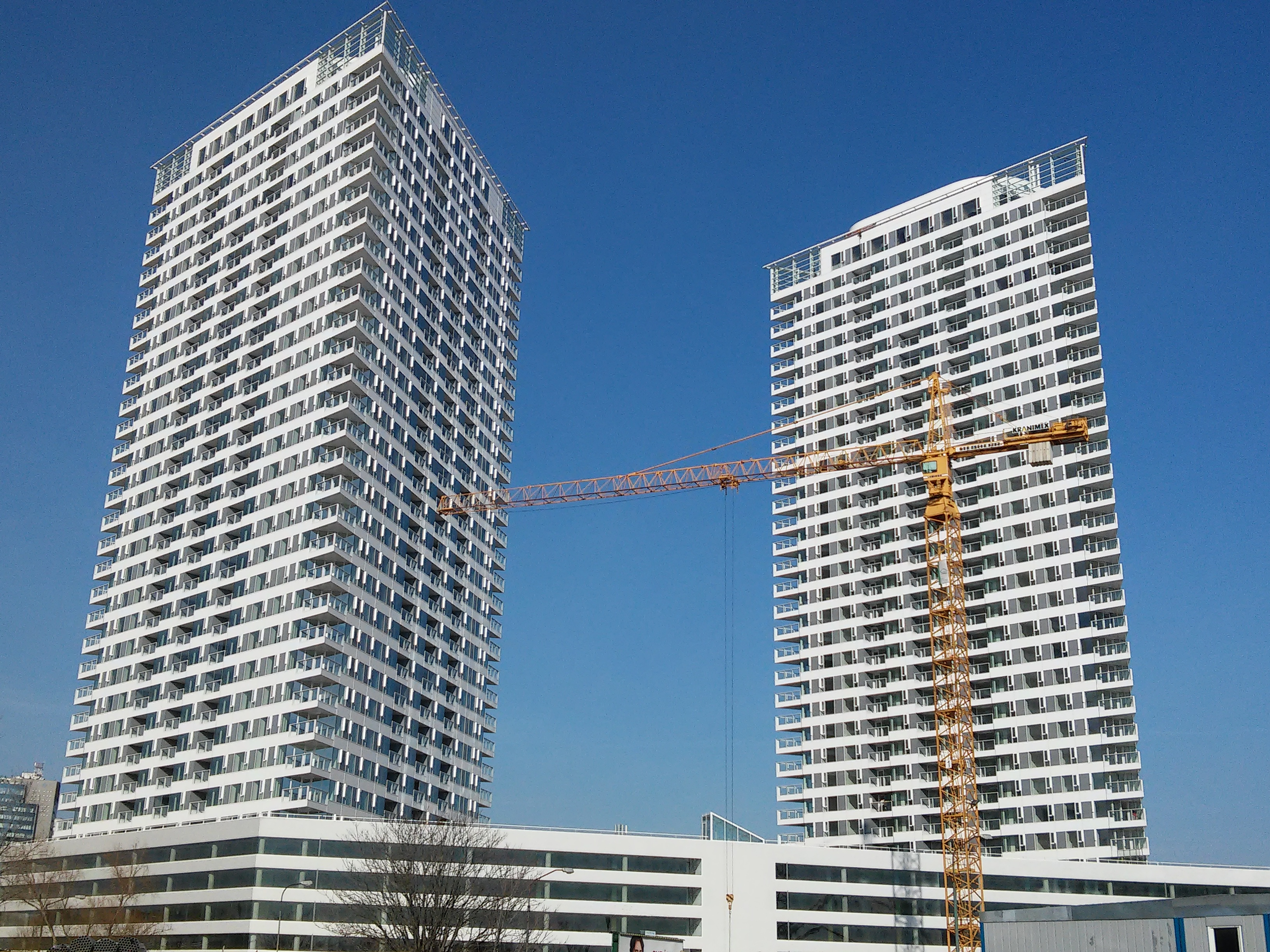 Panorama Towers, high-rise buildings in Bratislava